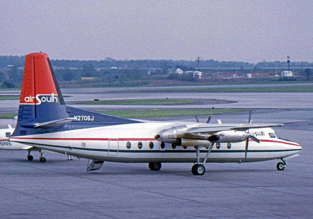 Fairchild F-27J N2706J of Air South at Atlanta Airport in 1974